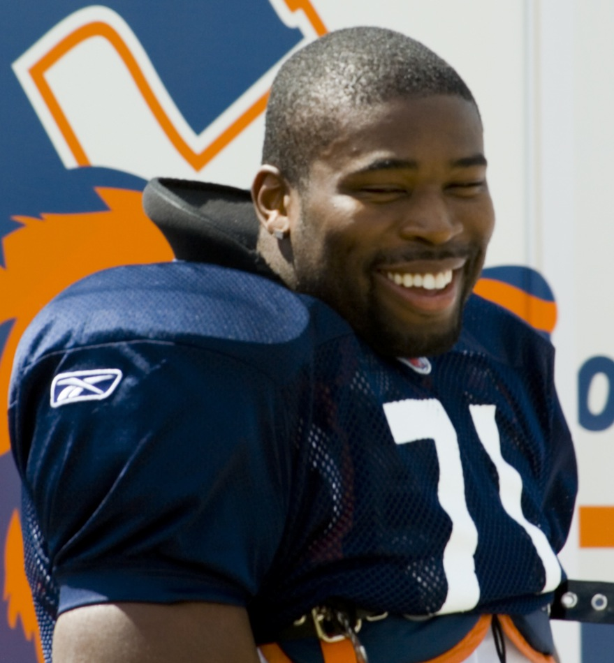 Israel Idonije, Training Camp 2008